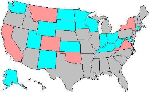 Summary of party change of U.S. house seats in the 1970 House election. Stripes indicate a tie between the gains of two or more parties. Legend: 6+ Democratic seat pickup 3-5 Democratic seat pickup 1-2 Democratic seat pickup 1-2 Republican seat pickup 3-5 Republican seat pickup 6+ Republican seat pickup Note: years ending in 2 may have inconsistent results due to redistricting.